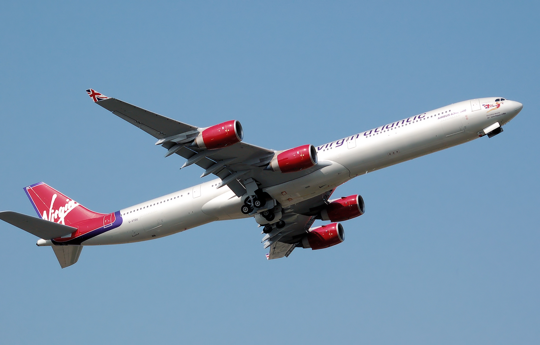 Virgin Atlantic Airways Airbus A340-600 (G-VYOU) taking off from London Heathrow Airport.